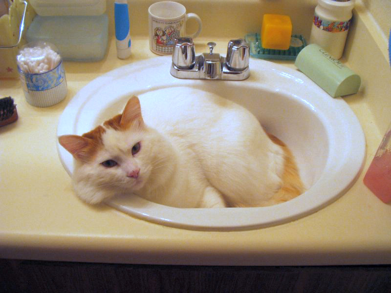 A one year old male red tabby and white Turkish Van cat.